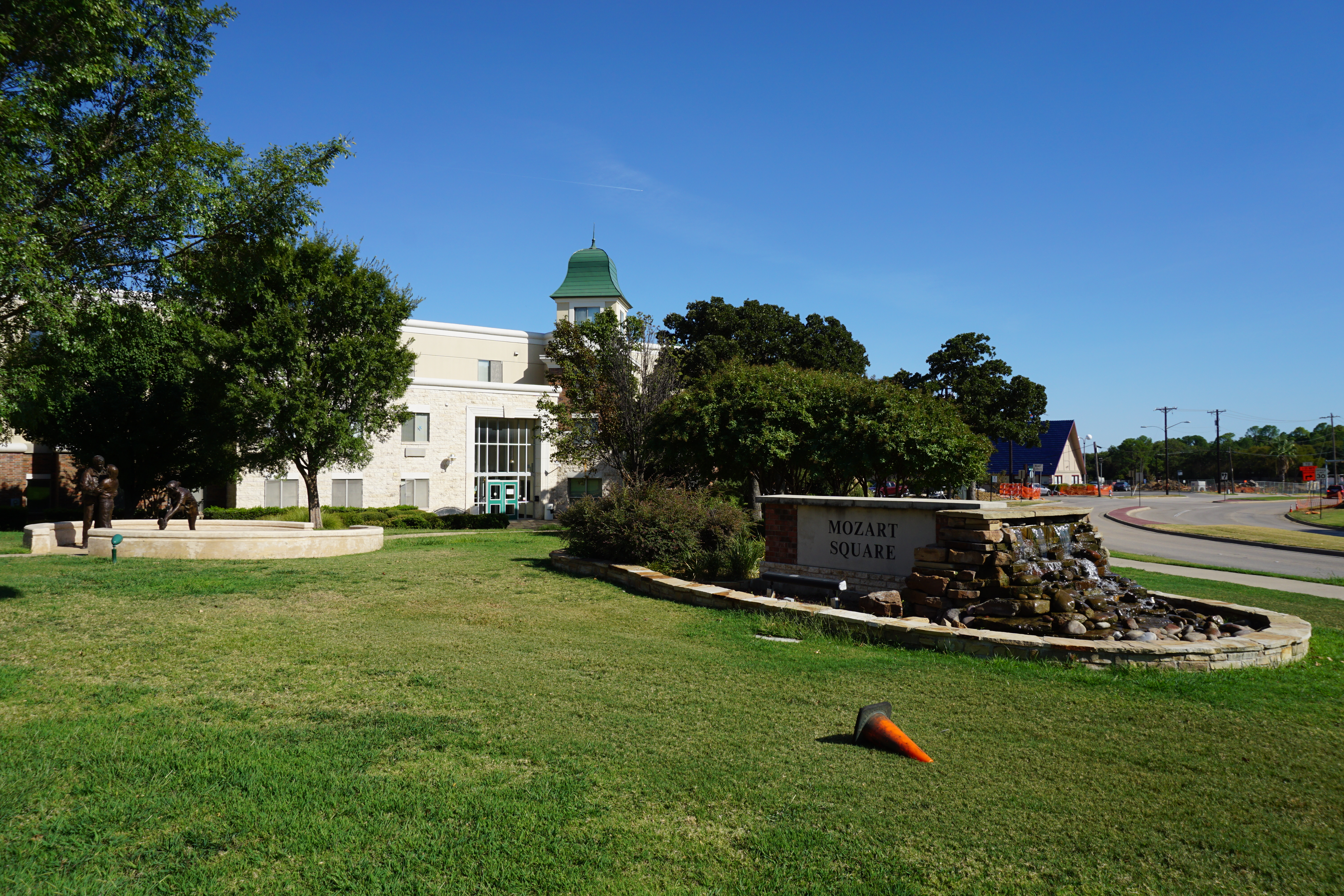 Mozart Square on the campus of the University of North Texas in Denton, Texas (United States).